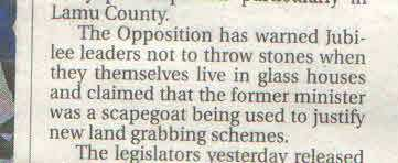 An extract from the front page of the 5 August 2014 issue of The Standard.